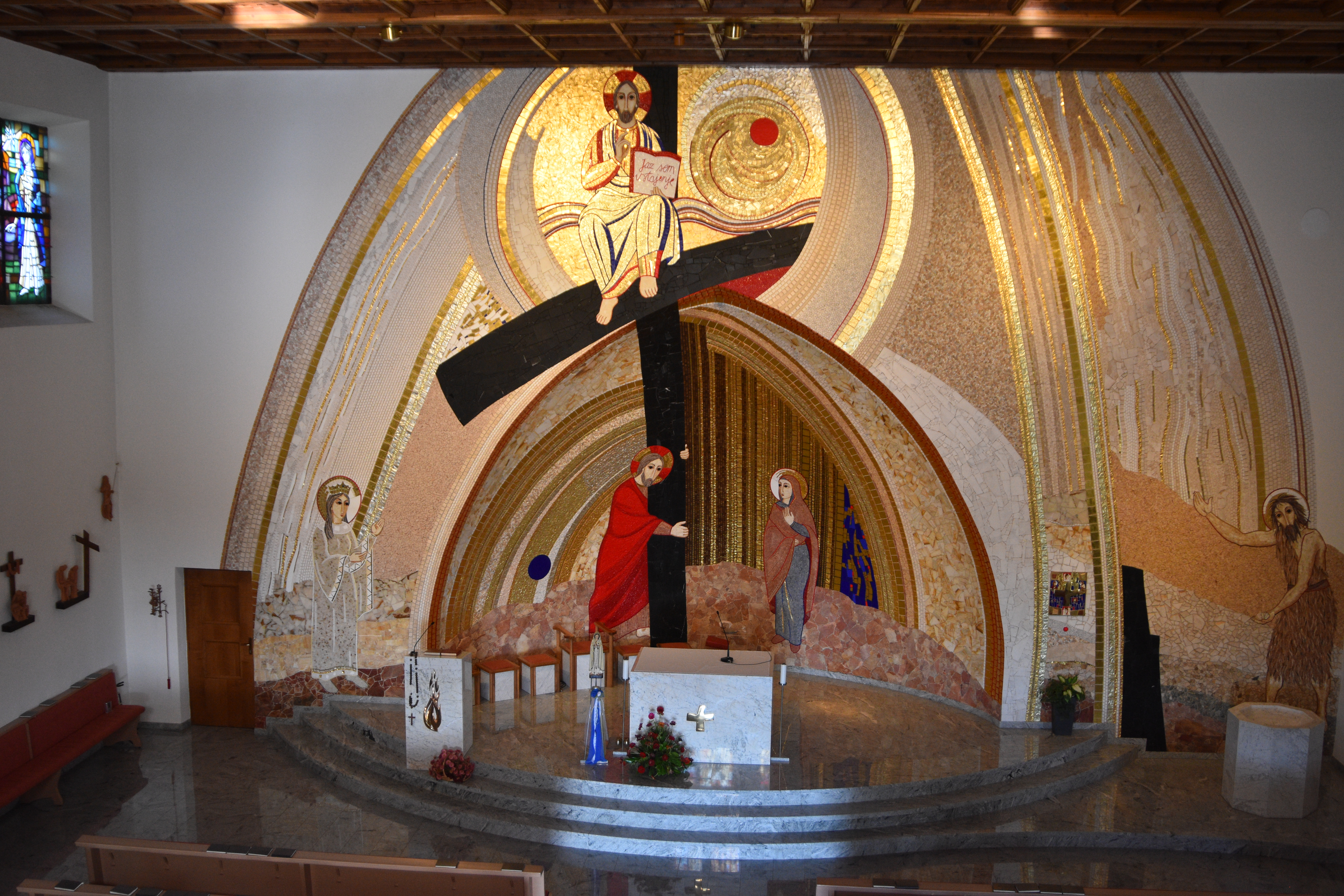 Pertoča Saint Helen